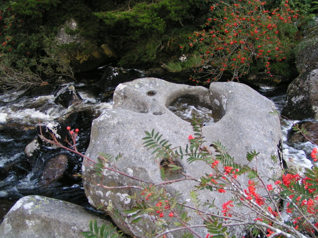 Stone with a hole in it over the river at Scorhill